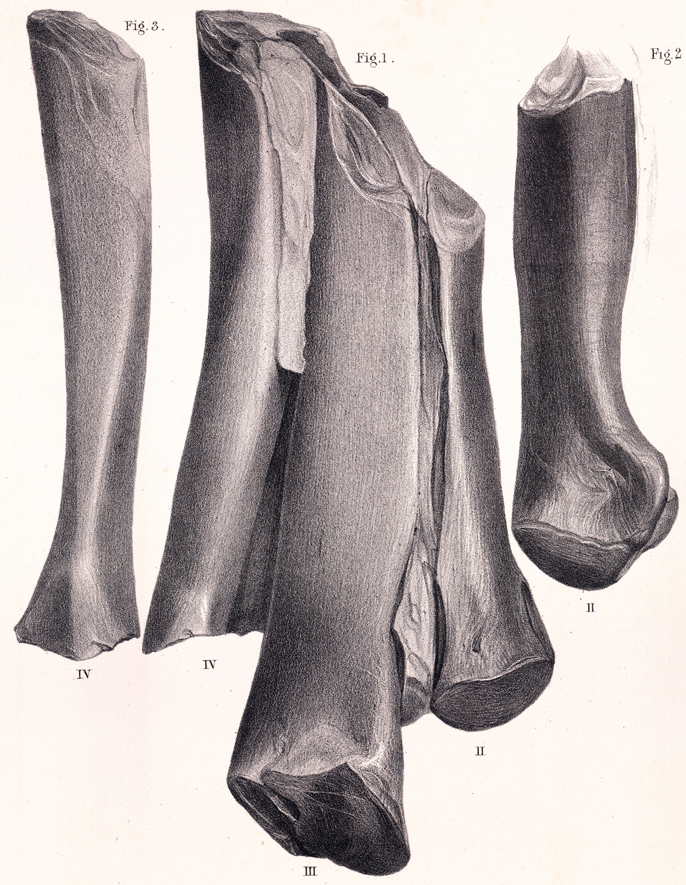 Partial left metatarsus of Valdoraptor (originally Hylæosaurus). Fig. 1. Front or upper view of the three normally developed metapodials. Fig. 2. Tibial side view of the innermost, answering to the second. Fig. 3. Fibular side view of the outermost, answering to the fourth. From the Wealden of Tilgate, Sussex. In the British Museum.